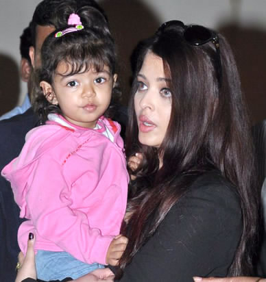 Aishwarya Rai with daughter Aaradhya at Abhishek receives Aishwarya as she arrives from London